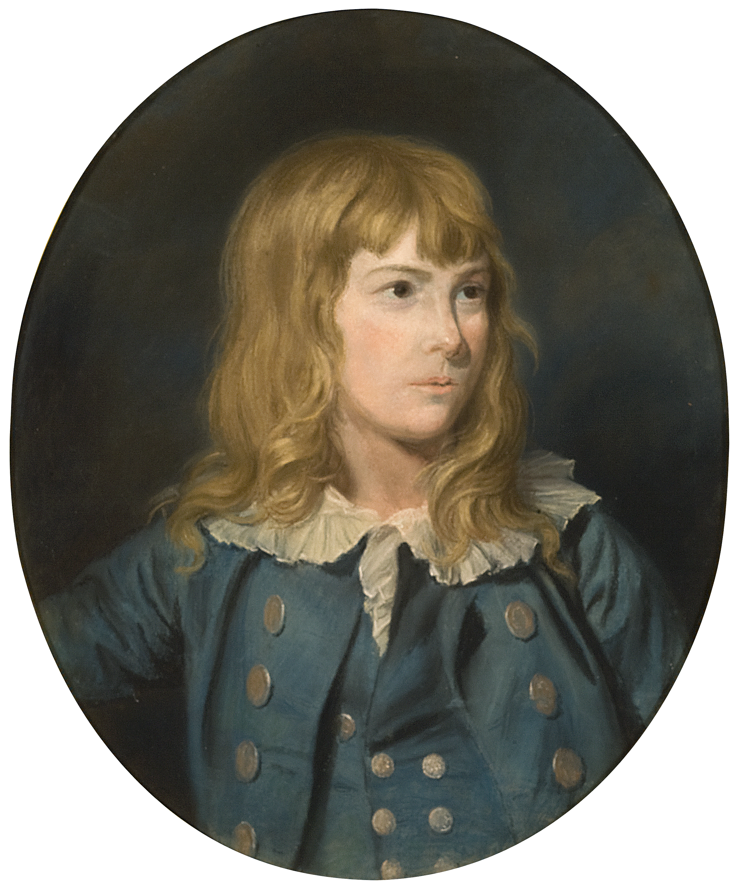 Portrait of a boy in a blue suit with silver buttons, most probably the Artist’s nephew.